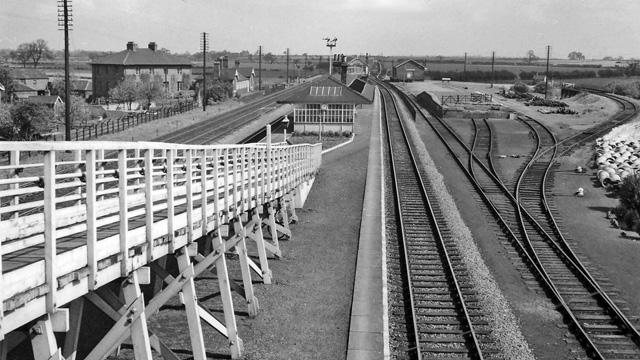 Bolton Percy Station. View NE, towards York; ex-NER Leeds/Sheffield - Church Fenton - York Main lines. Station closed 13/9/65.